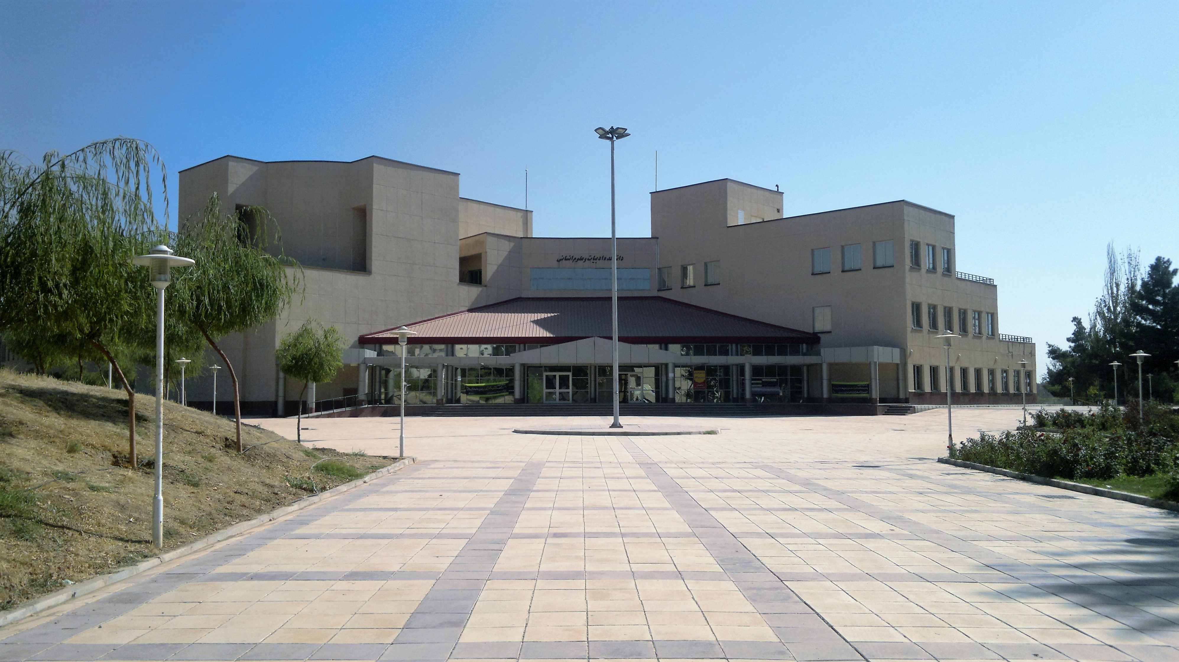 Hesarak Campus of Kharazmi (Khwarazmi) University in Karaj.